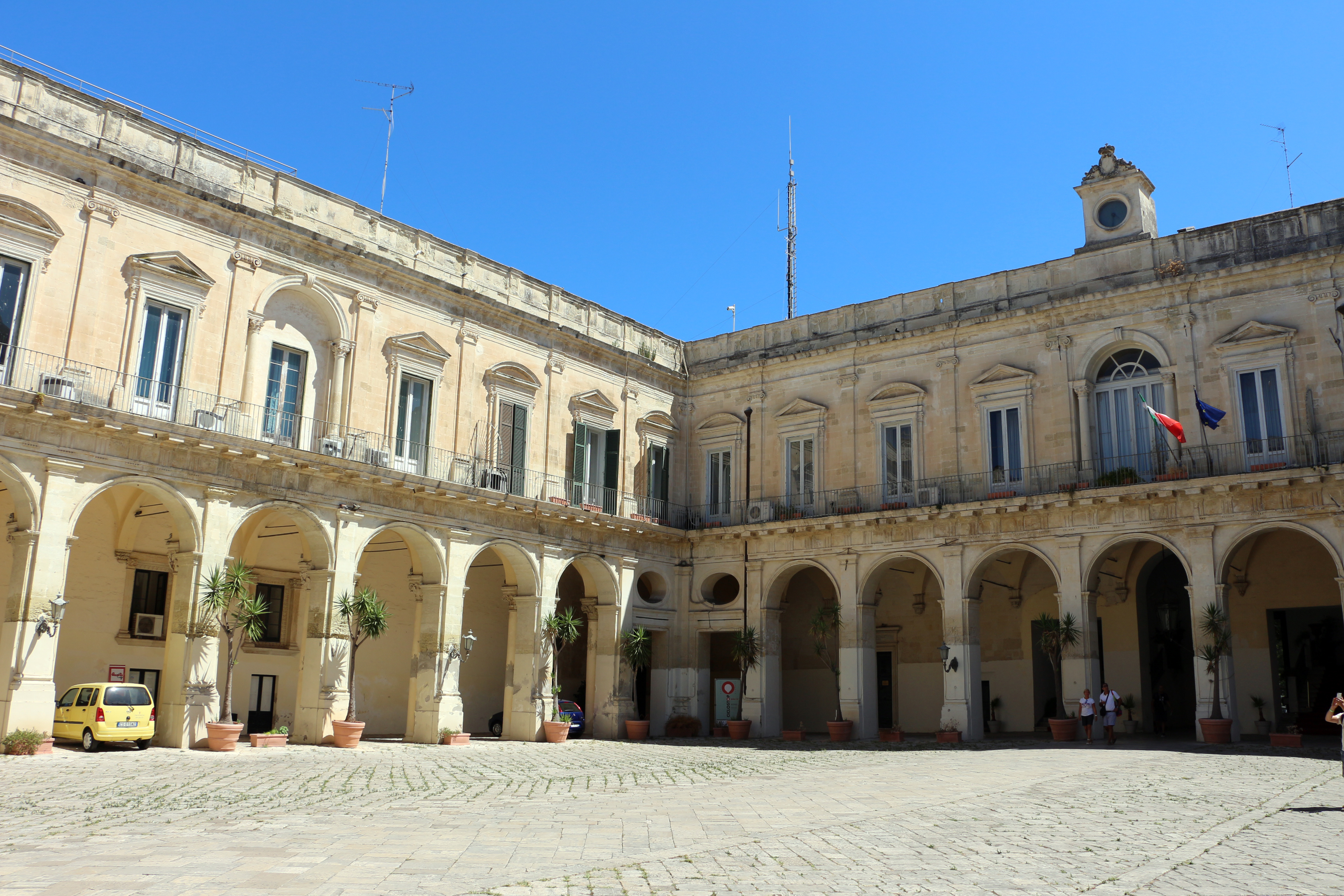 Buildings in Lecce